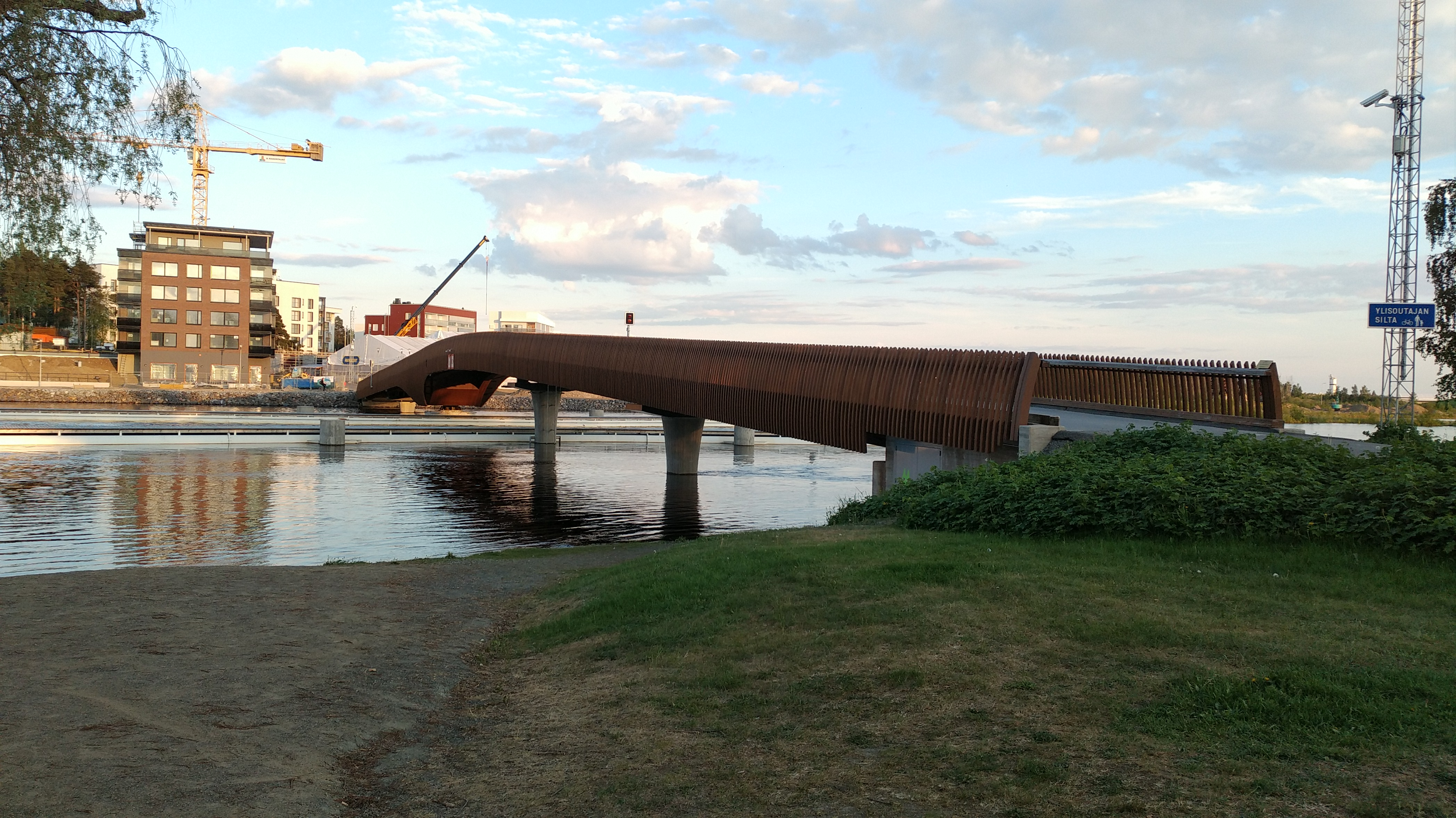 The "Ylisoutajan silta" bridge in Joensuu, Finland